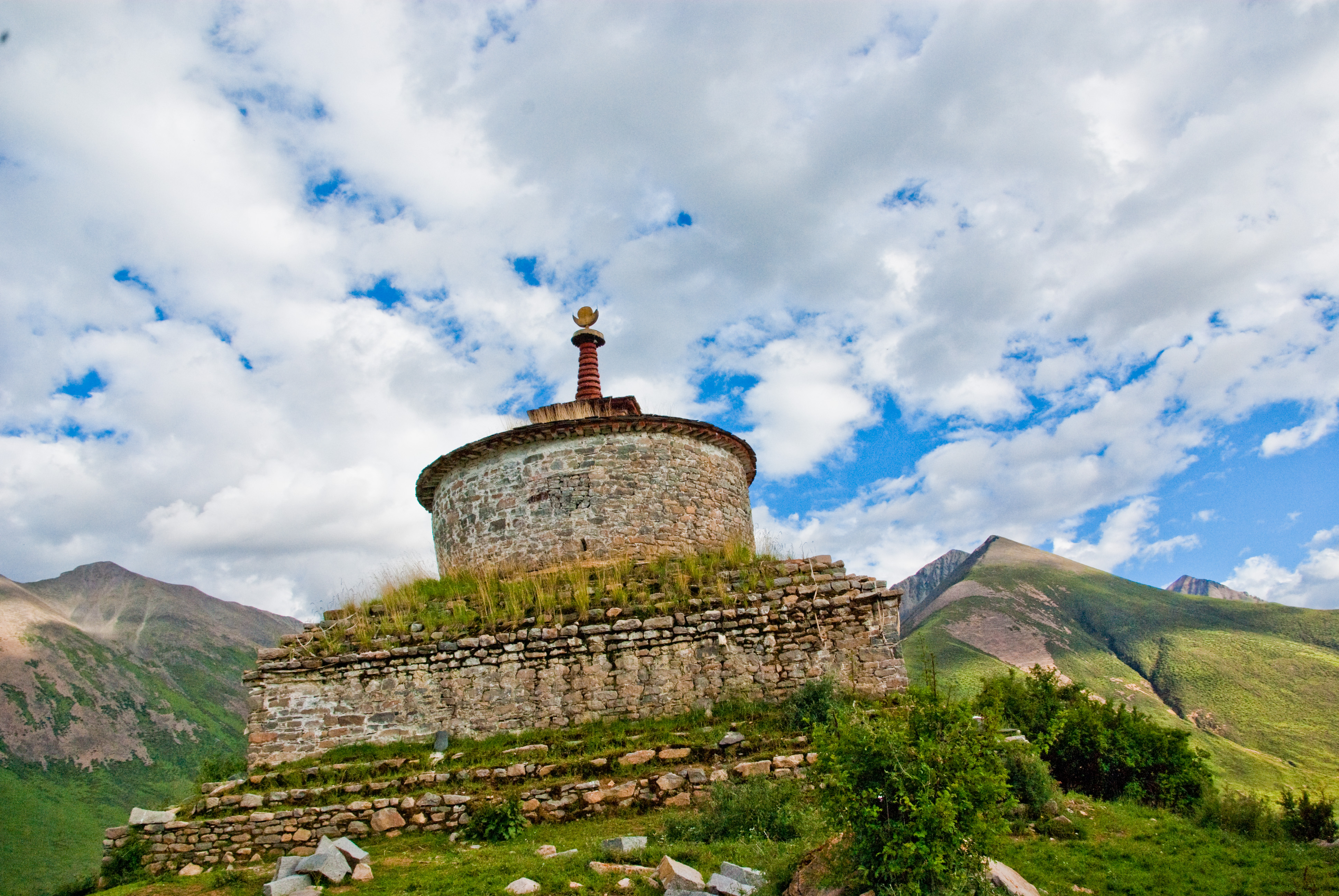 Reting monastery